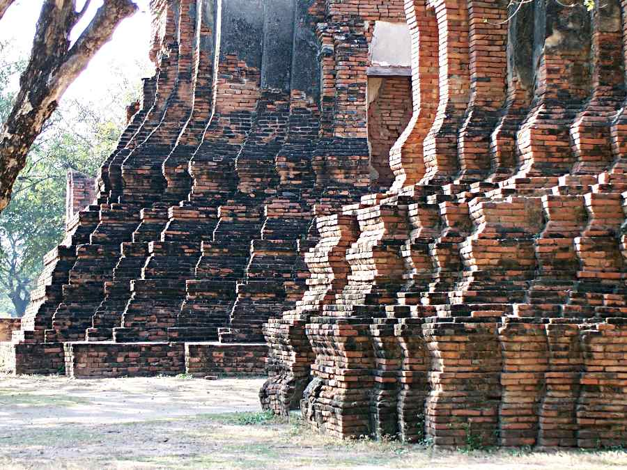 Bill Bradley, aka builderbll, billbeee My own work Feel free to use the work without removing my attribution. You can contact me at my website for higher definition images.My site.)